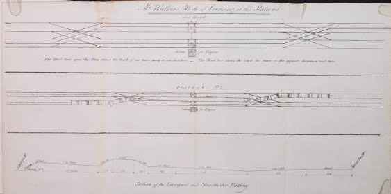 Mr. Walkers Mode of Crossing at the Stations (of the Brunton and Shields Railway)